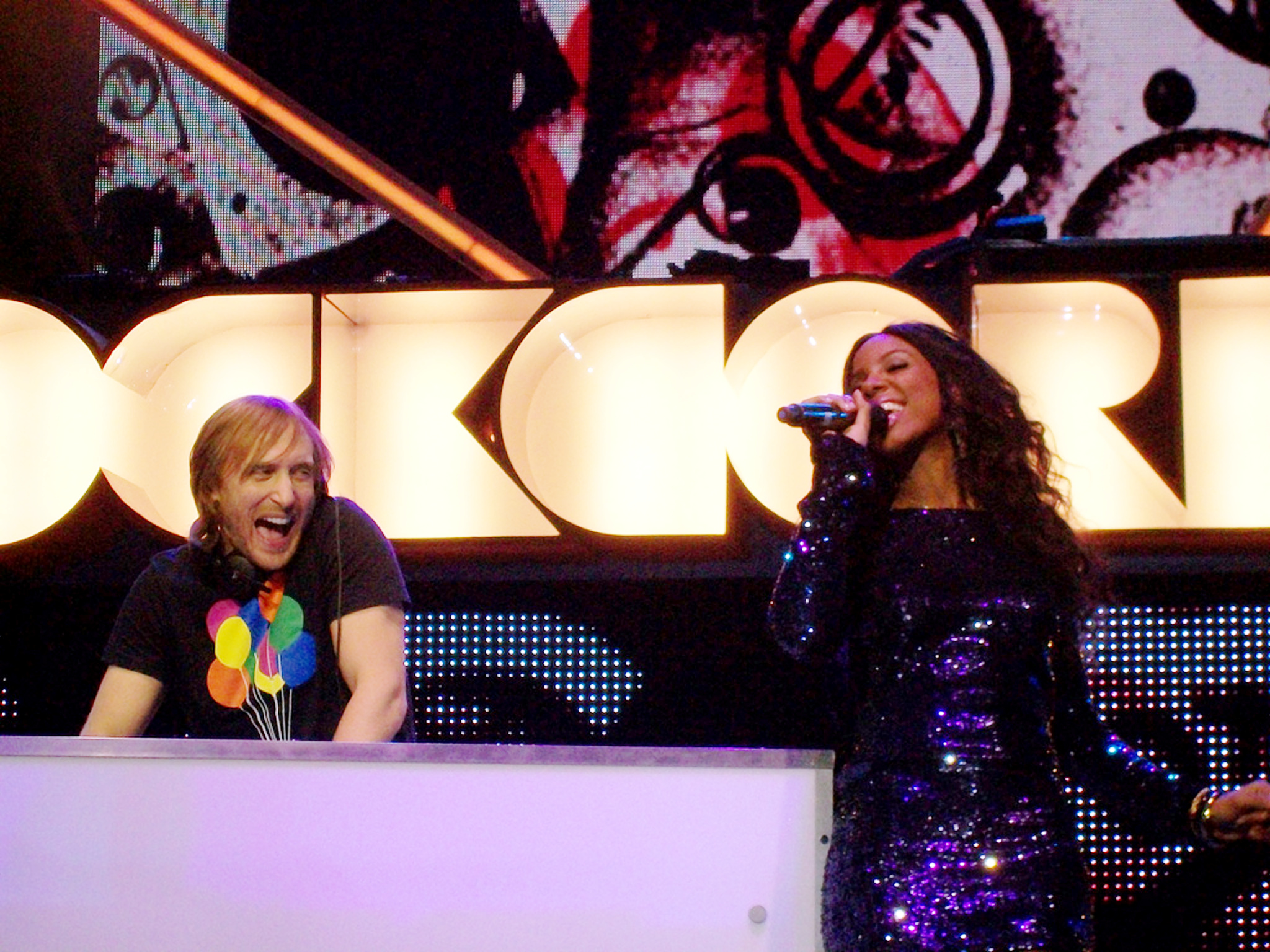 David Guetta and Kelly Rowland Live - Orange Rockcorps London 2009